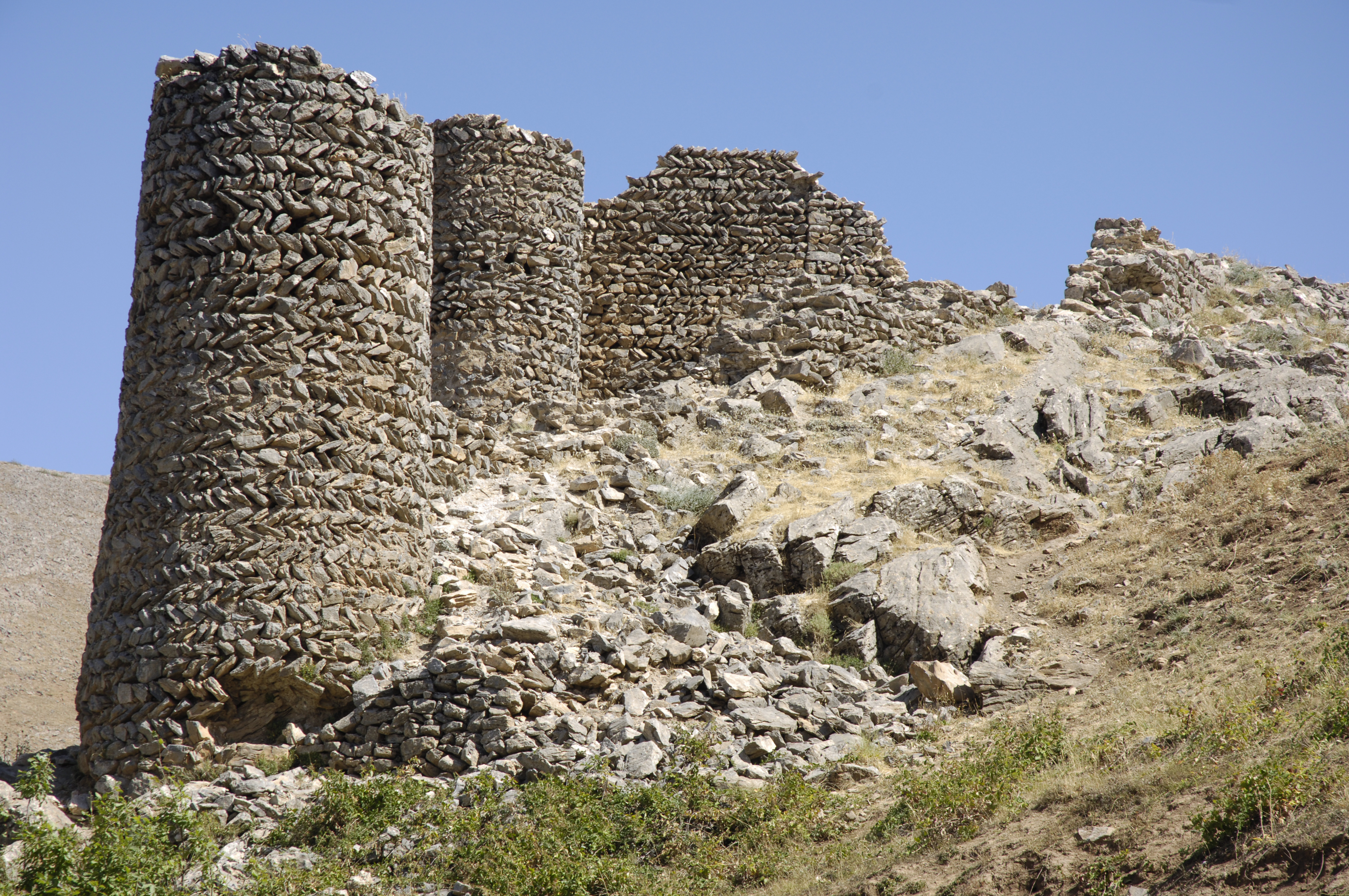 Kuşak Kalesi. I do not have information about its age, and one must keep in mind that many castles have been built on the spot where formerly there was another, and so on. It is some 5 kilometers from Muş itself, and you have to do some climbing up a so-so road.